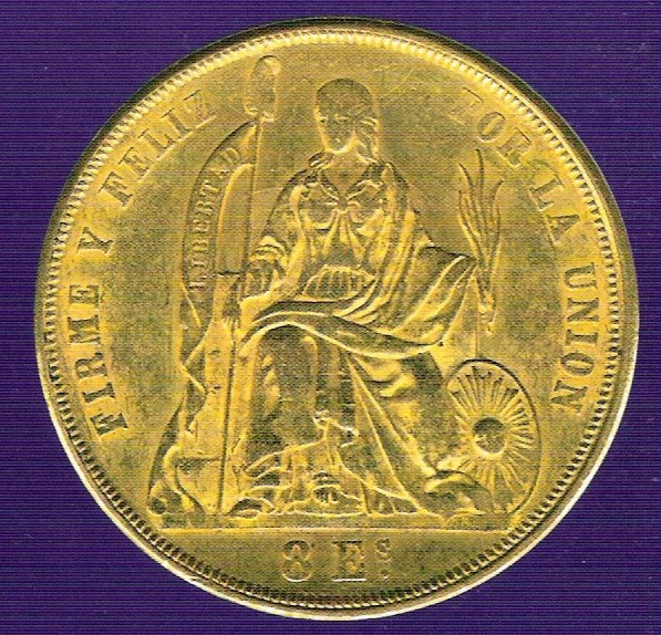 Golden coin of 8 escudos from Peru